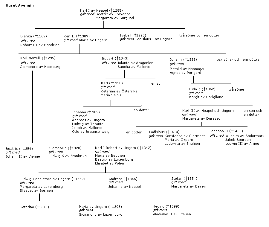 Swedish language chart about the family tree of the Angevin (Anjou) dynasty - based on different books.